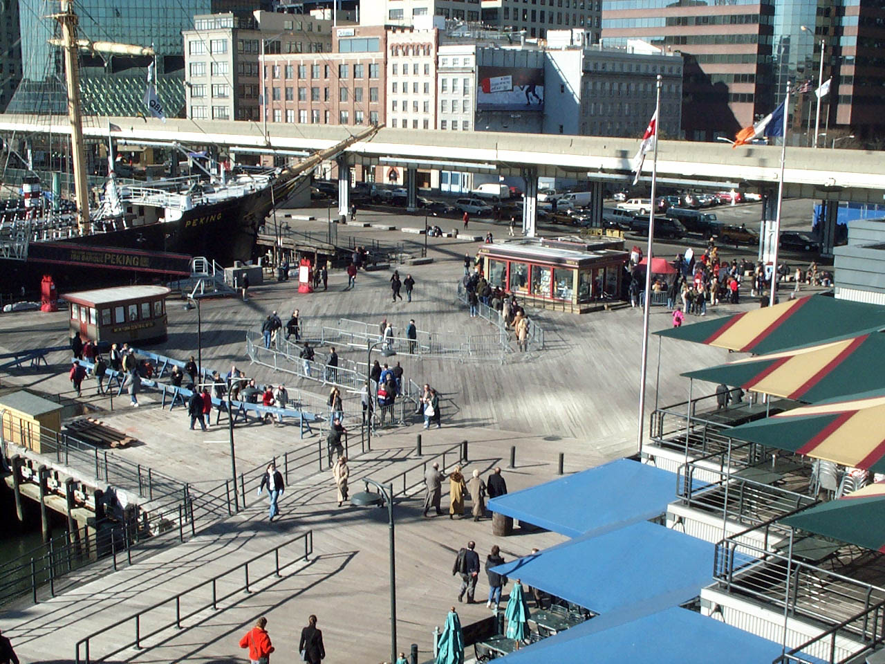 The South Street Seaport, photographed on January 24, 2002. Photographed by Luigi Novi. This photo is not in the public domain. It may, however, be used, modified and published for any purpose, free of charge, only if the photographer is properly credited, either by linking the photograph to this page, or with an easily visible credit to the photographer placed near the photo in each instance in which it is used. (See licensing information below.) Publication of this photo without this proper attribution constitutes copyright infringement. If you have any questions, you can contact me on my Wikipedia Talk Page.